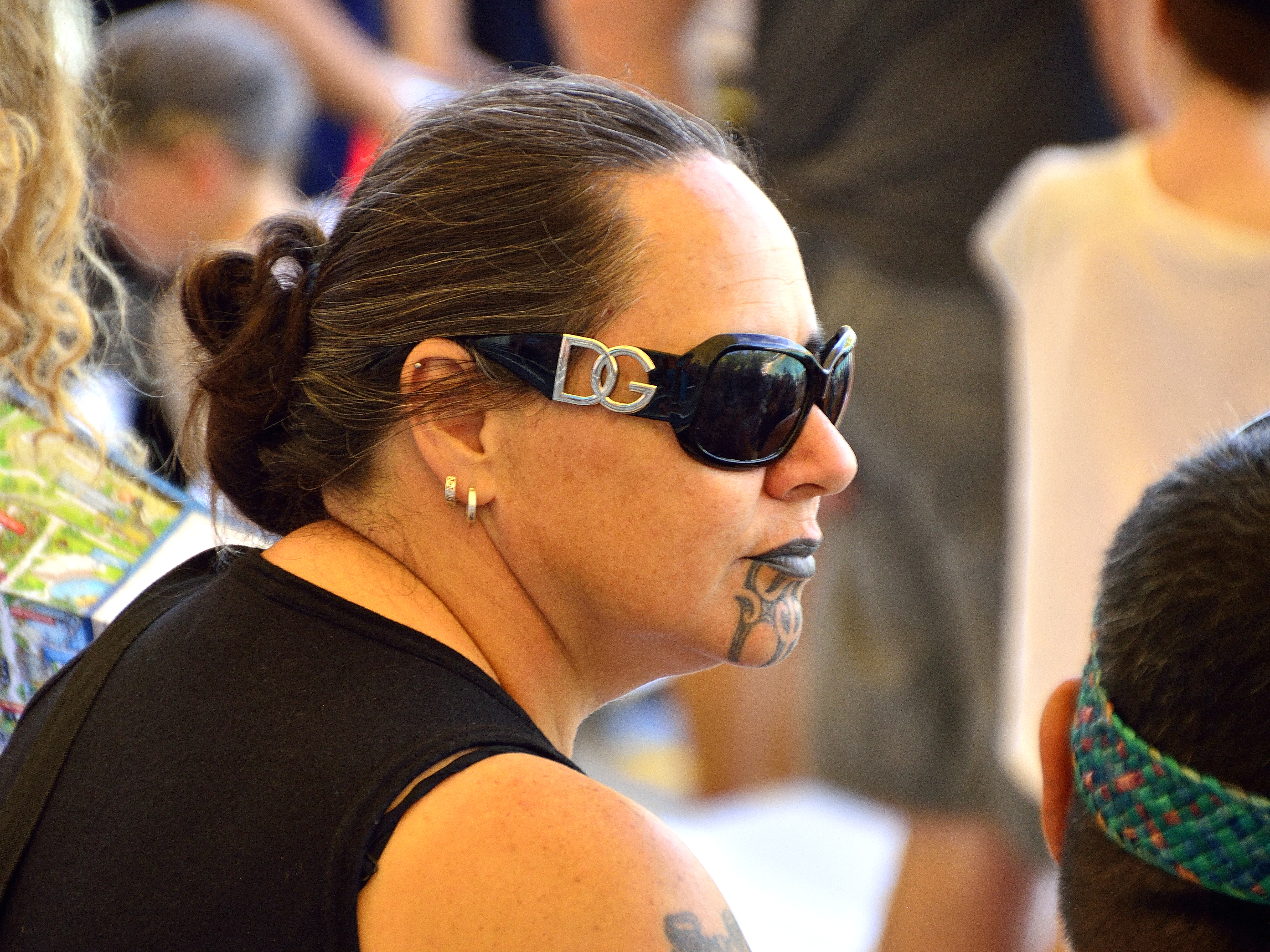 A woman with tattooed lips and chin